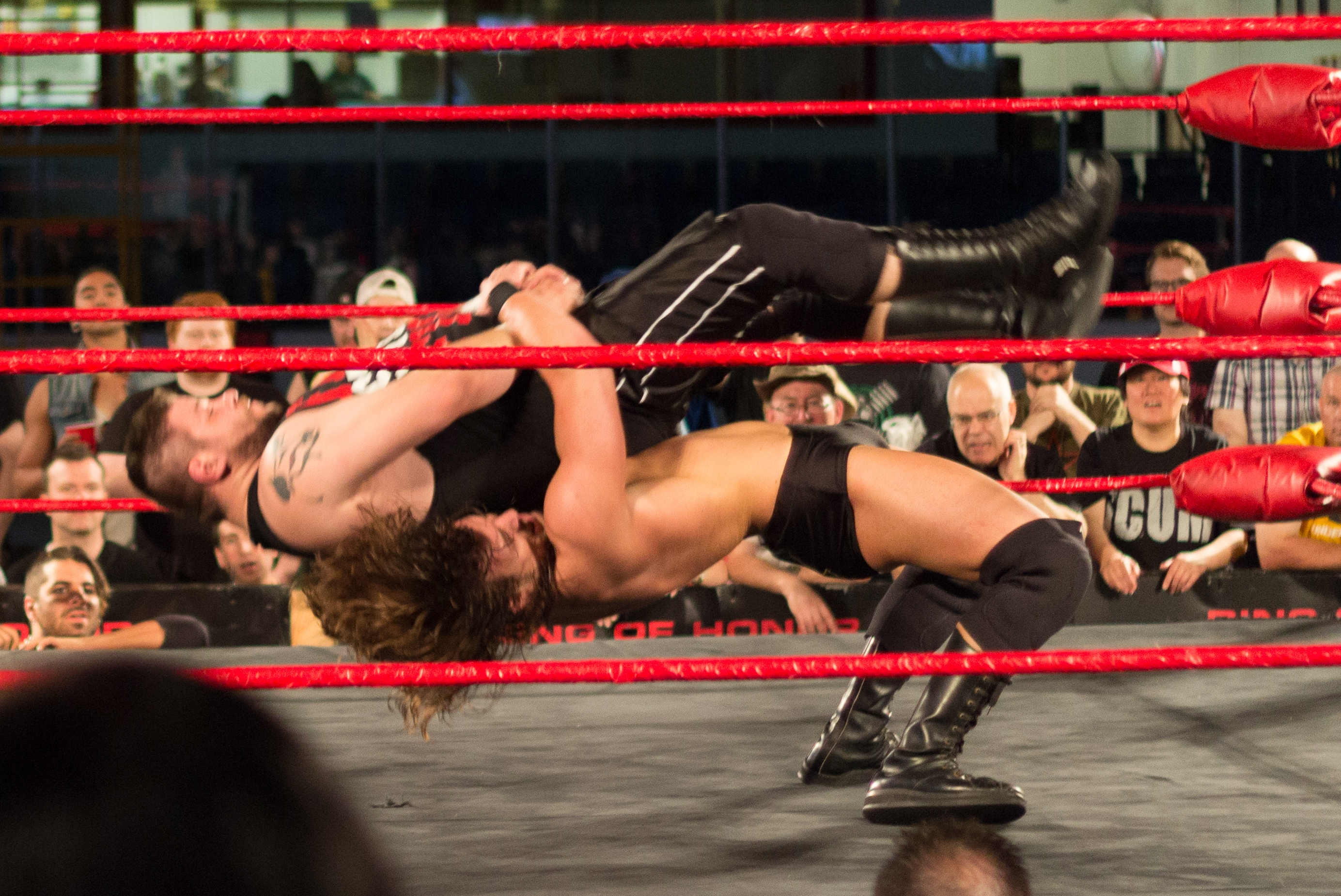 Adam Cole executing a straightjacket german suplex on Kevin Steen at the Ring of Honor tapings held at the Ted Reeve Arena in Toronto.